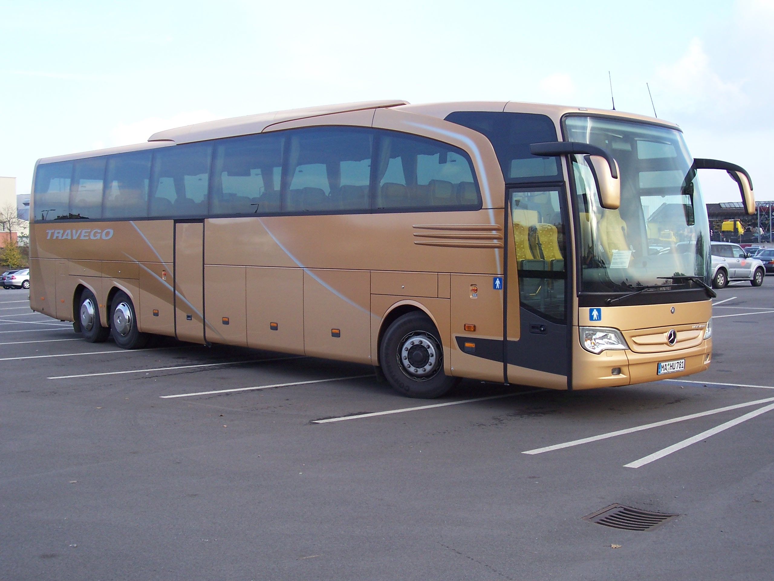 An EvoBus/Mercedes-Benz Travego L coach (reg. MA-HU 781) at MOT 2005 in Mannheim, Germany. My own photo from 19-nov-2005.